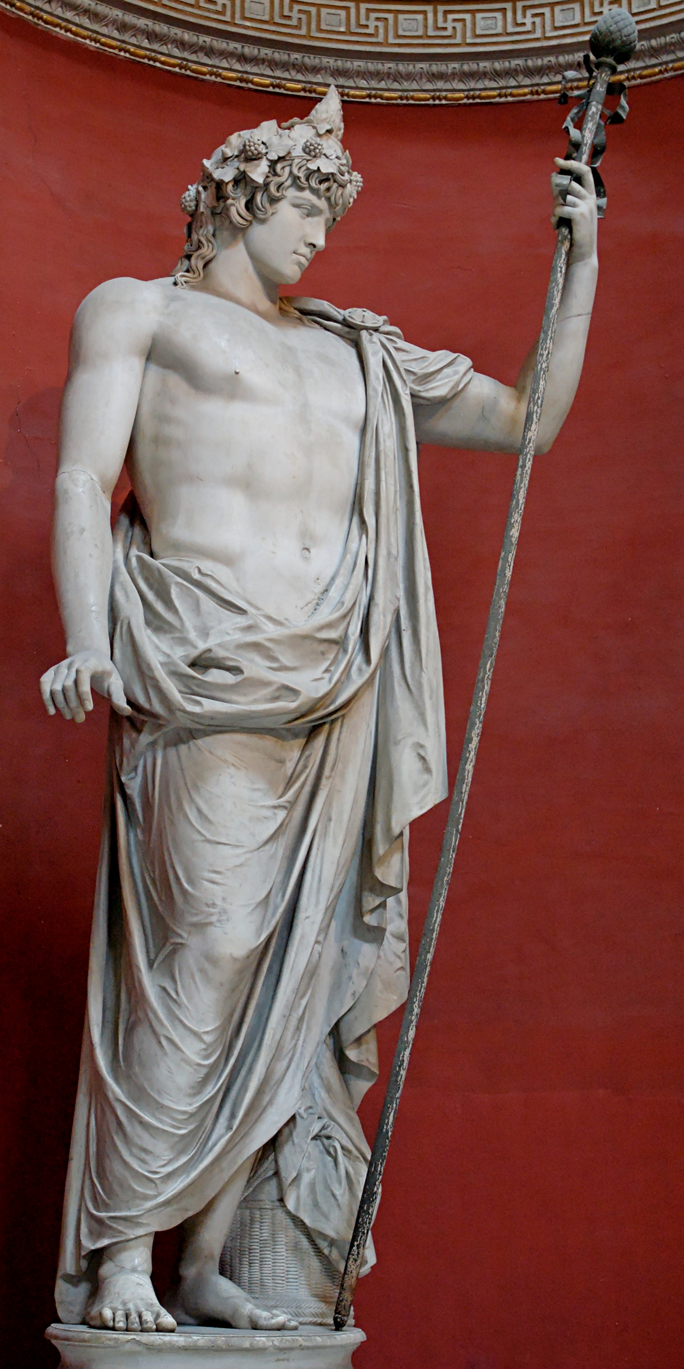 Colossal statue of Antinous as Dionysos-Osiris (ivy crown, head band, cistus and pine cone). Marble, Roman artwork.